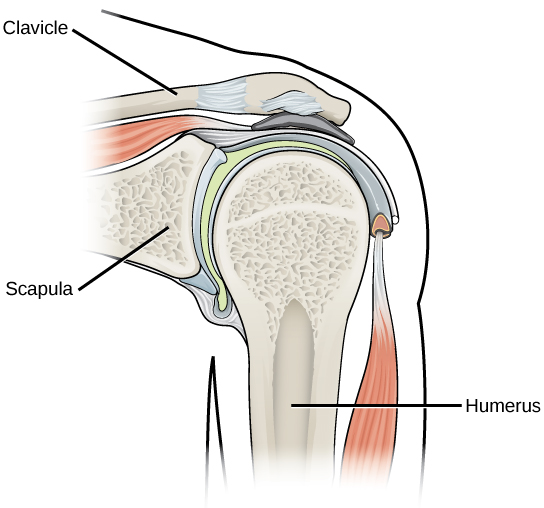 Name: Biology ID: Language: English Summary: Biology is designed for multi-semester biology courses for science majors. It is grounded on an evolutionary basis and includes exciting features that highlight careers in the biological sciences and everyday applications of the concepts at hand. To meet the needs of today’s instructors and students, some content has been strategically condensed while maintaining the overall scope and coverage of traditional texts for this course. Instructors can customize the book, adapting it to the approach that works best in their classroom. Biology also includes an innovative art program that incorporates critical thinking and clicker questions to help students understand—and apply—key concepts. Subjects: Science and Technology Keywords: cells,DNA,gene,expressio,nphylogeny,conservation,biodiversity,biology,chemistry,evolution,proteins,bacteria,fungi,cell,membranes,inheritance,physiology,ecology,genetics,biotechnology,biosphere,photosynthesis,biological,molecules,cell structure,metabolismc,ellular respiration,genes,cell communication,cell reproduction,meiosis,sexual reproduction,genomics,study of life,cell function,animal diversity,animal reproduction,plant nutrition,soilseedless plantsplant physiologyplant reproductionanimal bodycirculatory systemdigestive systemendocrine systemnervous systemrespiratory systemorigin of speciesecosystemsarchaeasensory systemosmotic regulationimmune systemvertebratesviruspopulation ecologymusculoskeletal systembehavioral biologyanimal biologyanimal physiologybiology for majorscollege biologyeukaryotesinvertebratesmacromoleculesplant biologypopulation evolutionprokaryotesprotistsseed plants Print Style: CCAP Biology License: Creative Commons Attribution License (by 4.0) Authors: OpenStax Copyright Holders: Rice University Publishers: OpenStax OpenStax Biology Latest Version: 10.53 First Publication Date: Aug 22, 2012 Latest Revision: May 27, 2016 Last Edited By: OpenStax Biology